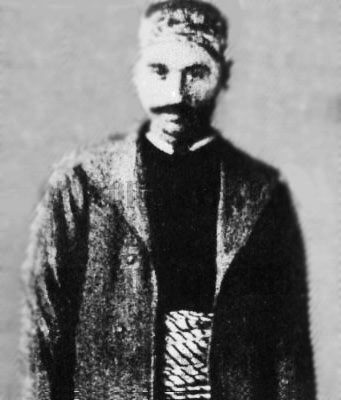 Cropped portrait of Hasan al-Kharrat, a leading commander of the Great Syrian Revolt in Damascus